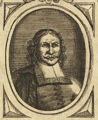 Little portrait of Abraham Leuthner, from the title page of this 1677 treatise Grundtliche Darstellung, Der Fünff Seüllen wie solche von dem Weitberühmbten Vitruvio Scamozzio und andern Vornehmben Baumeistren Zuesamben getragen und in gewiße Außtheillung verfasset worden …